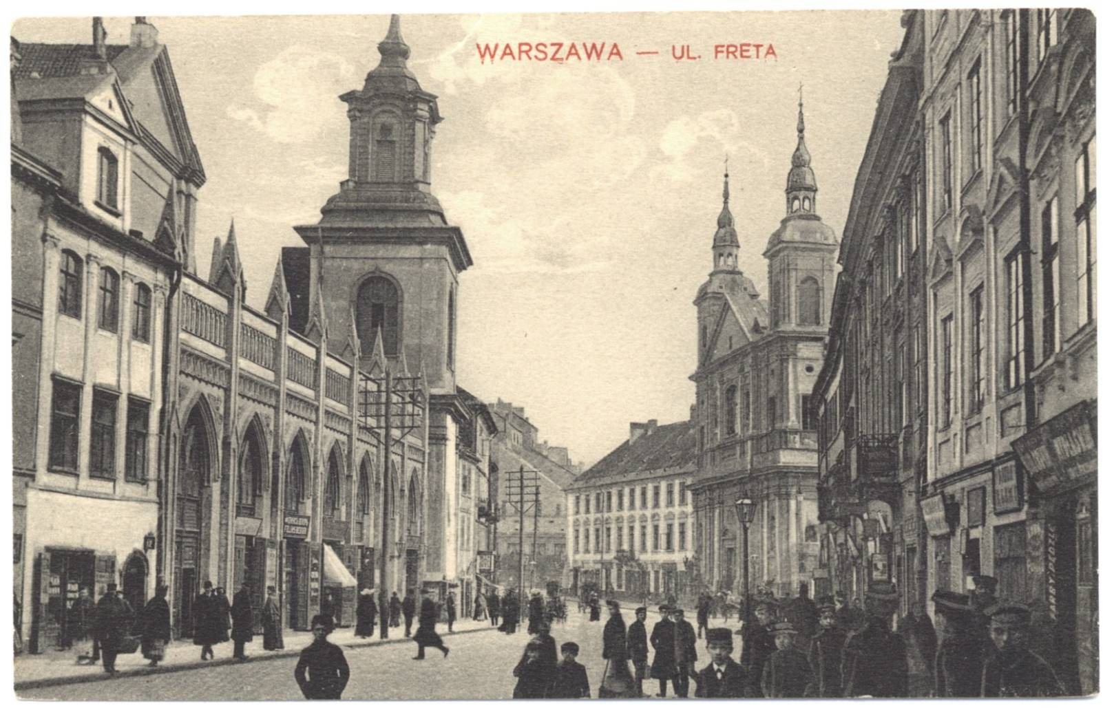 Freta Street in Warsaw